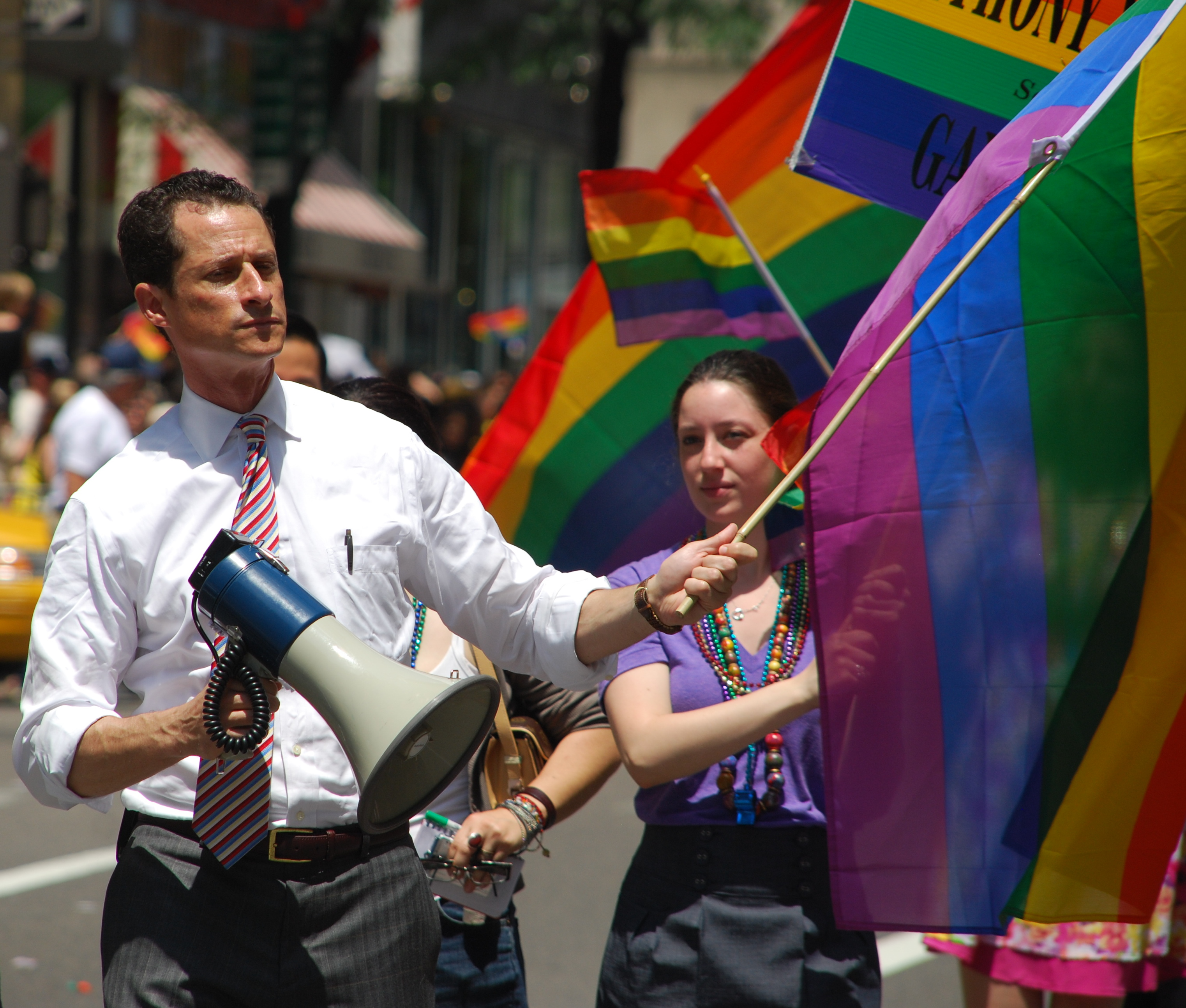 Anthony Weiner at the LGBT Pride parade, New York City, 2009.